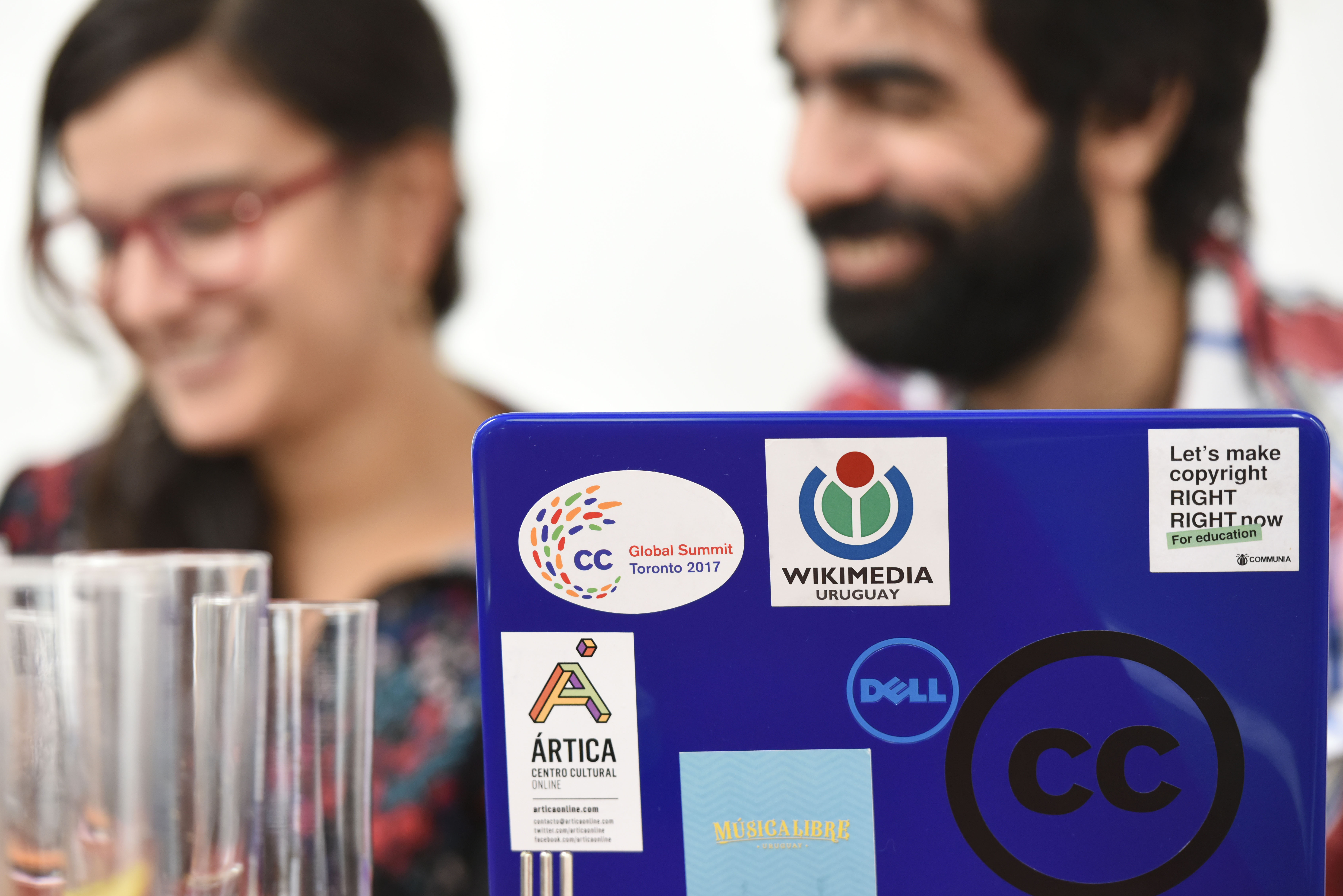 Editatona - Creation of articles.